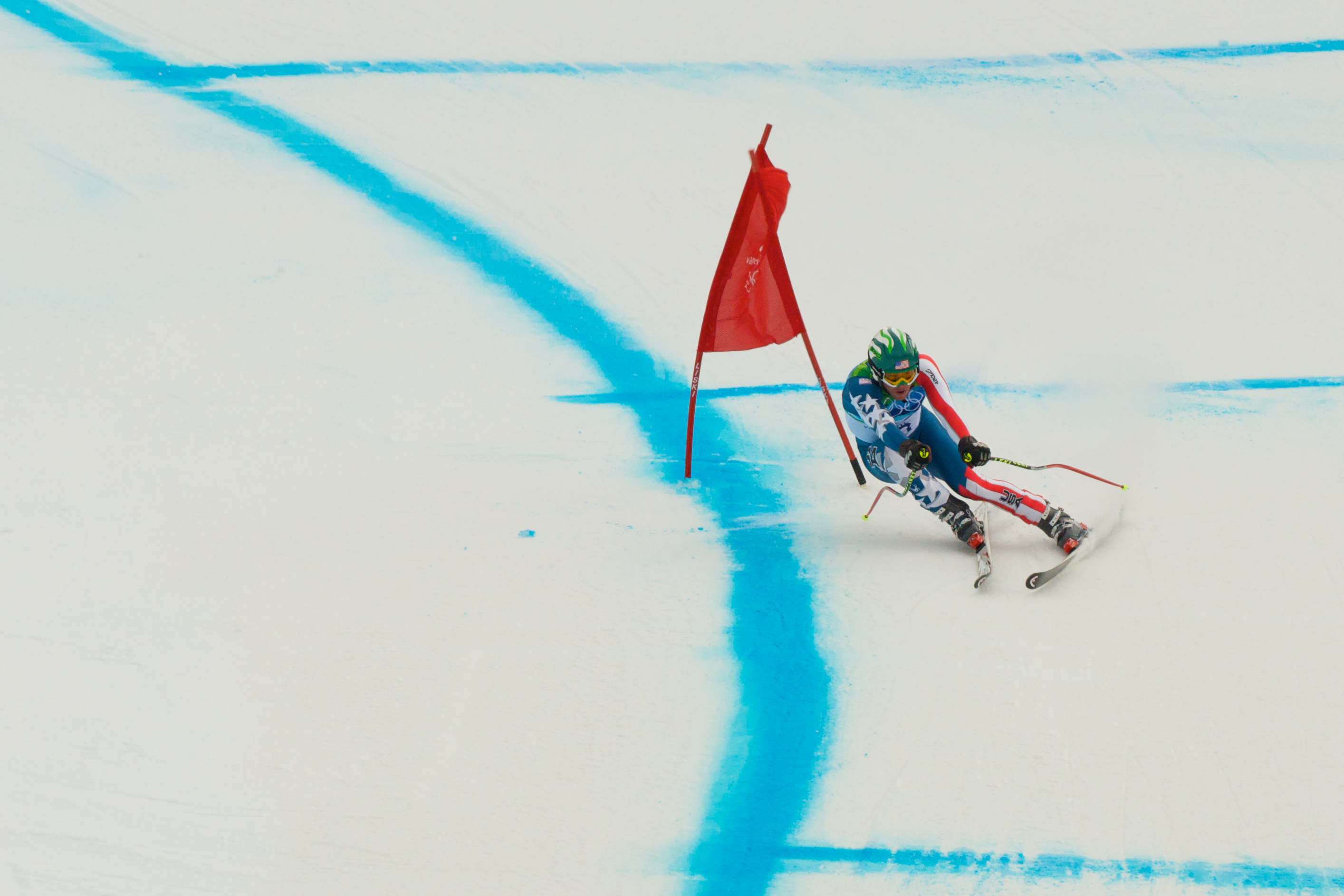 Men's Downhill at the 2010 Winter Olympics: Bronze medalist Bode Miller of the United States on his run.